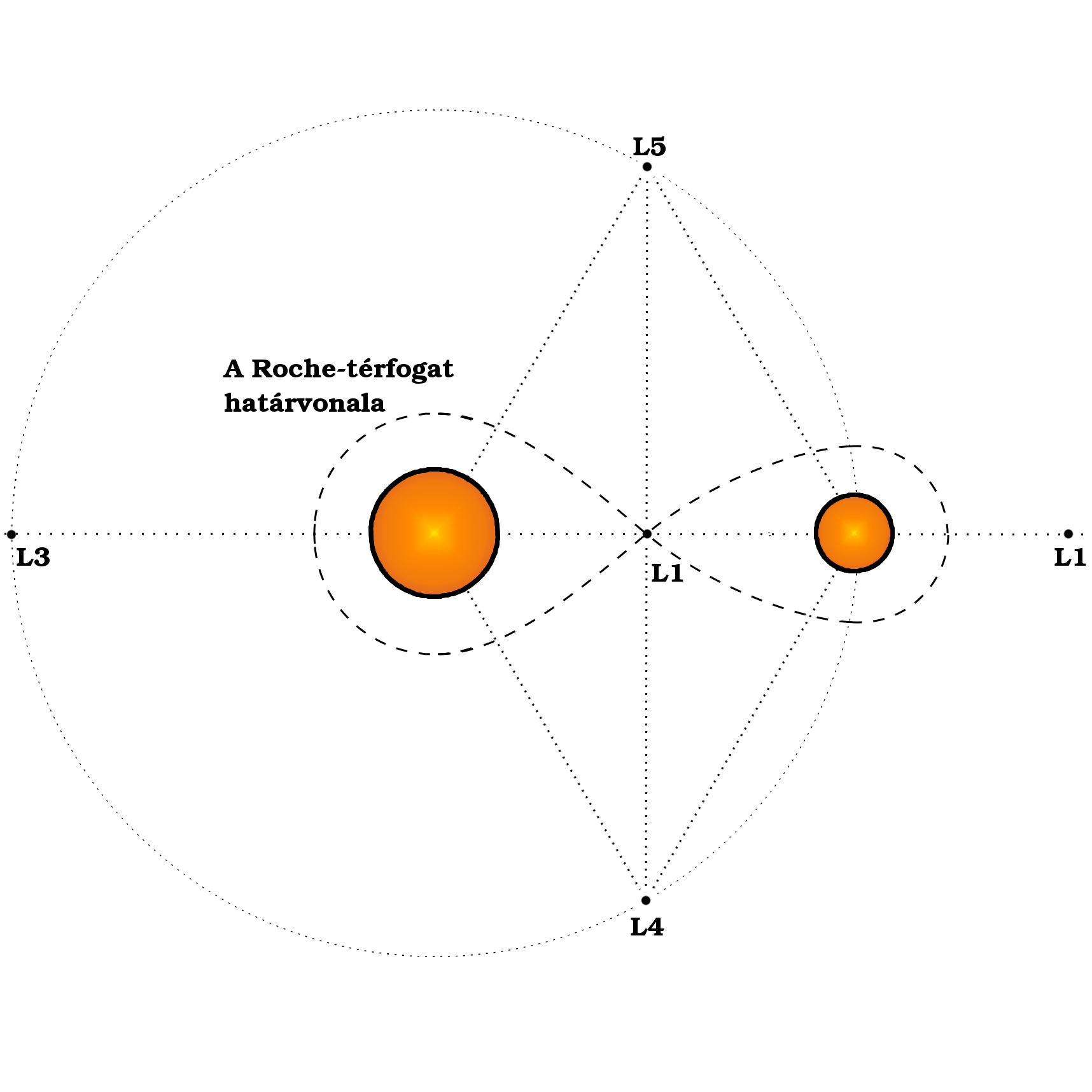 This image is only an illustration. It is a depiction of the Roche-lobe around two stars of different mass, with the Lagrange-points visible. The dashed line is the boundary of the Roche-lobes